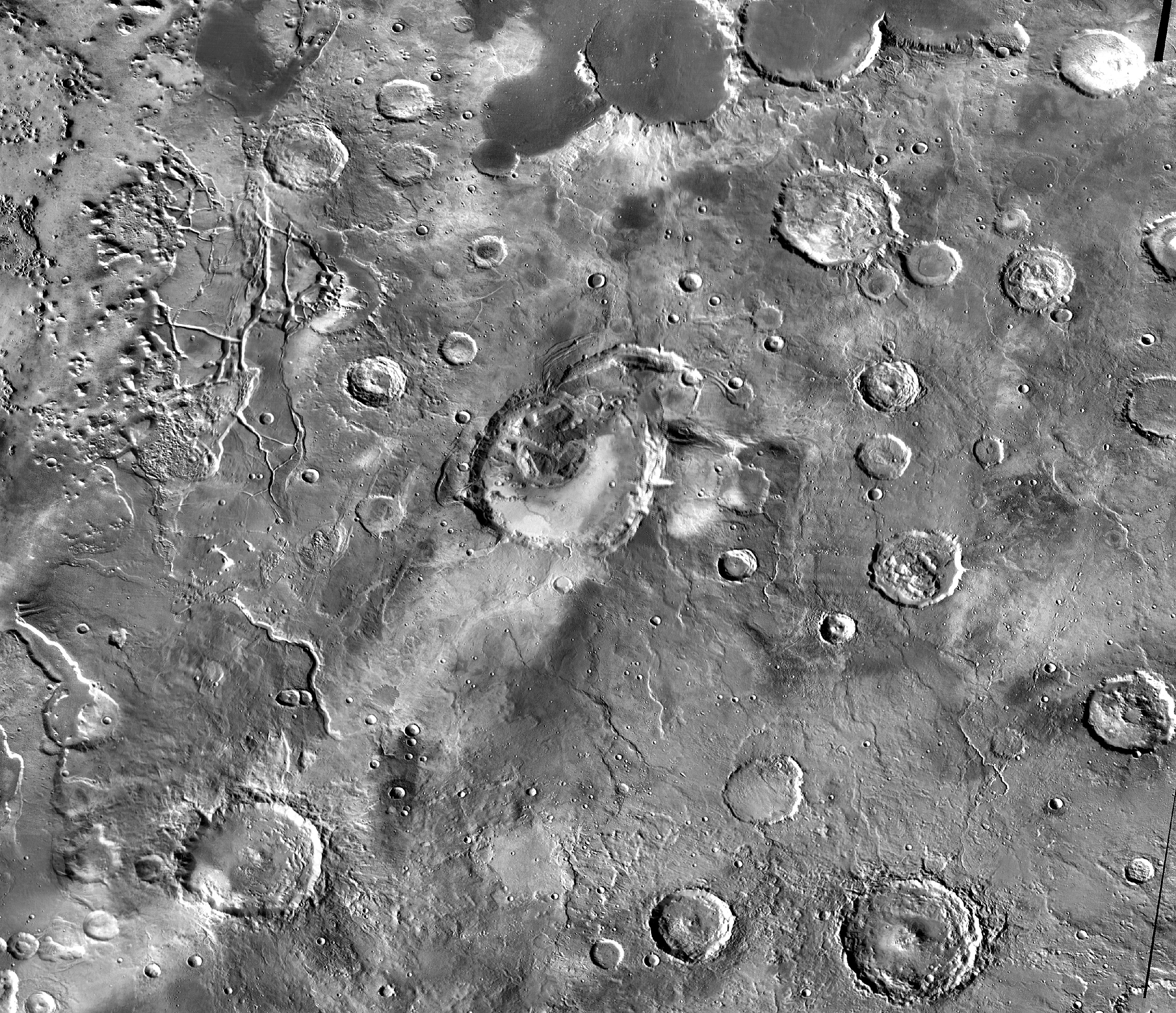 THEMIS daytime infrared image mosaic showing Eden Patera (at center), a possible volcanic caldera complex, and its surroundings in the Arabia Terra region of Mars. The source image has been reduced in size and sharpened.